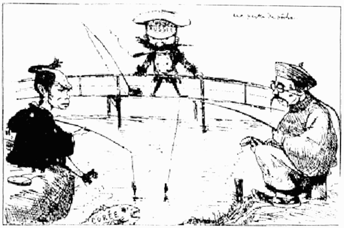 "Une parti de pêche" (a fishing party), Tobae, February 1887.